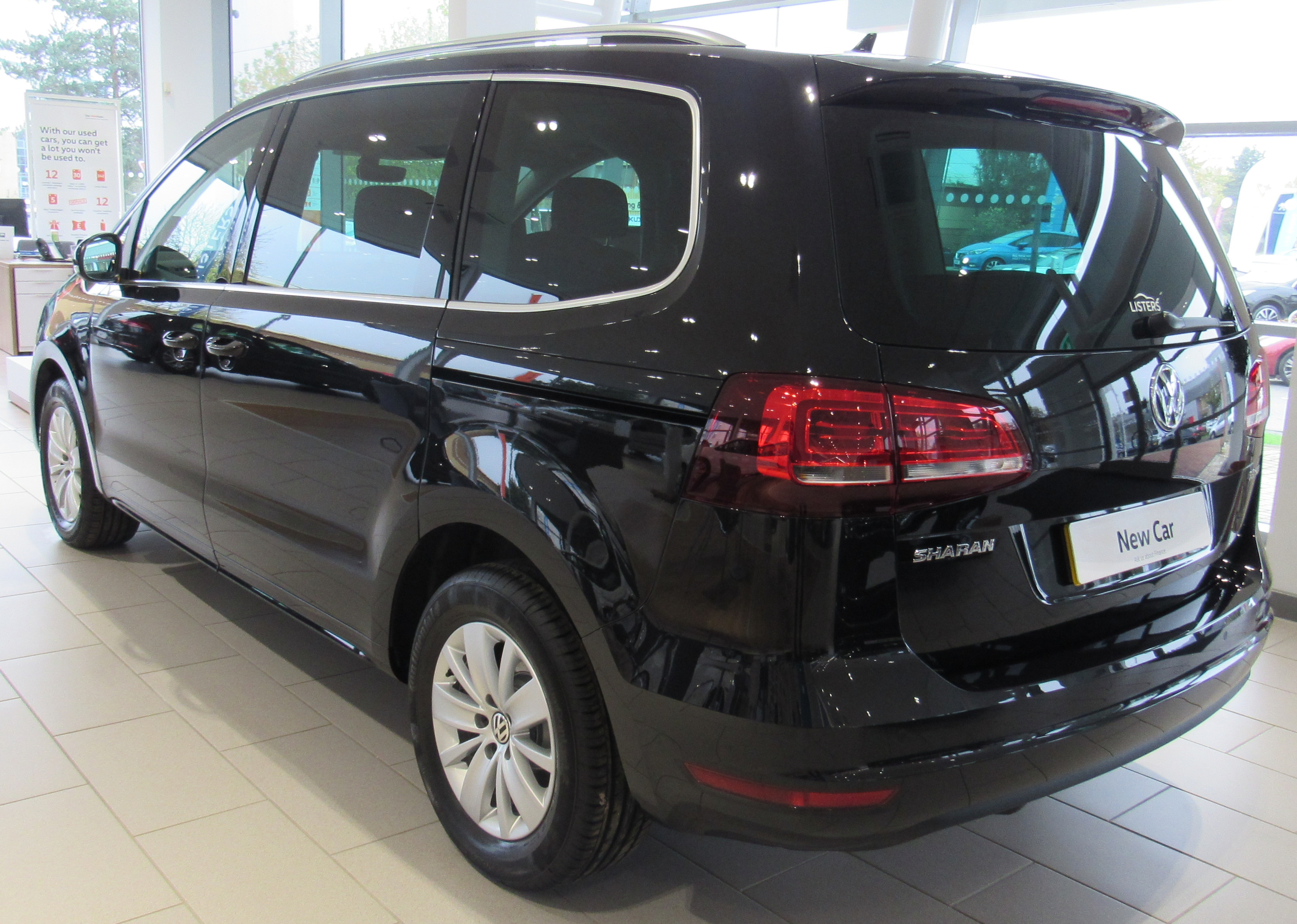 2017 Volkswagen Sharan SE TDi 2.0 Rear Taken in Listers Volkswagen, Leamington Spa